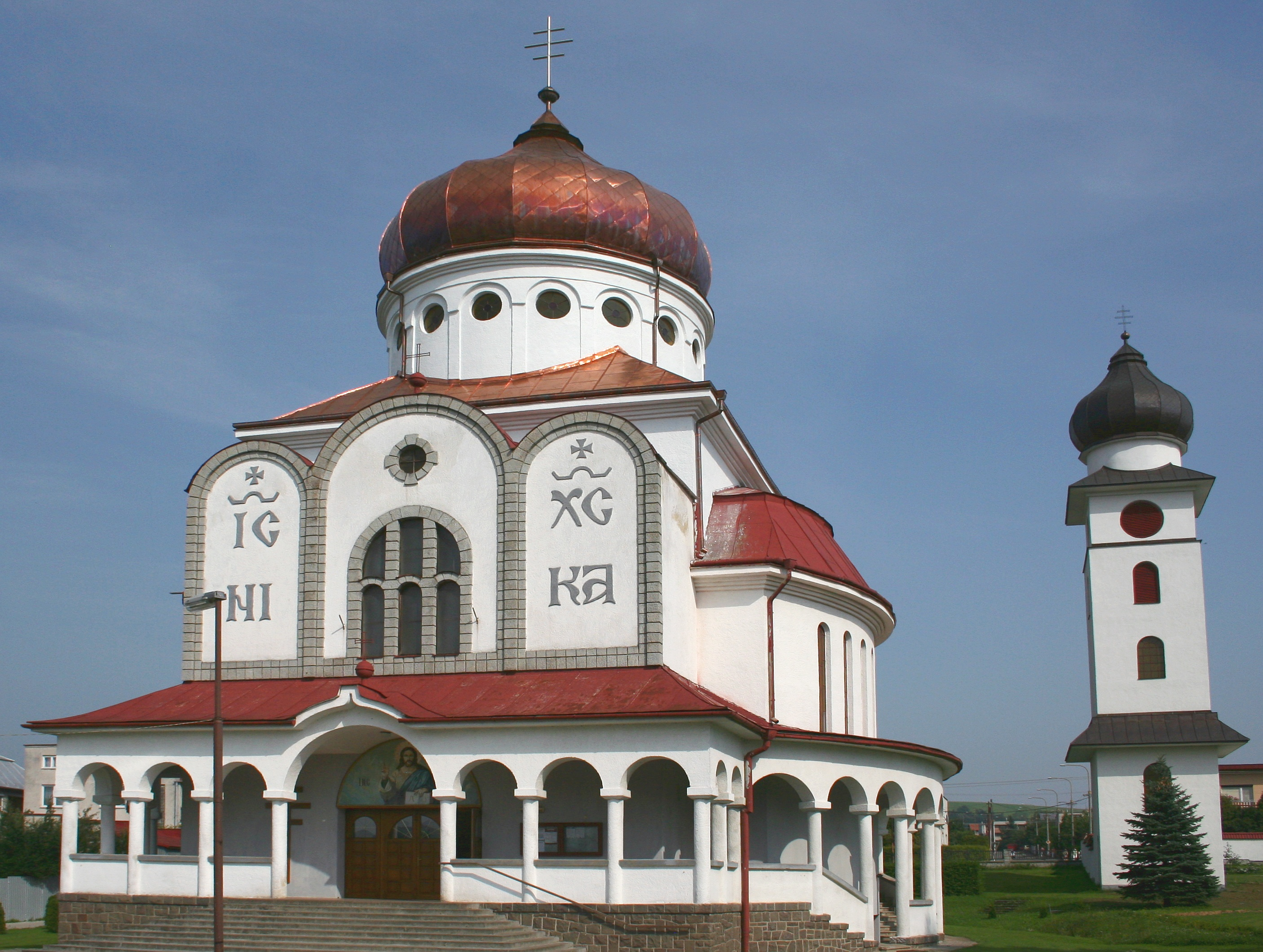 cerkiew in Stropkov, Slovakia